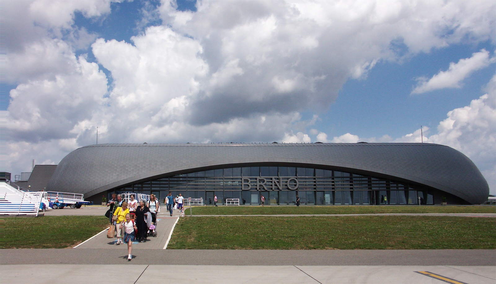 LKTB departure terminal - boarding